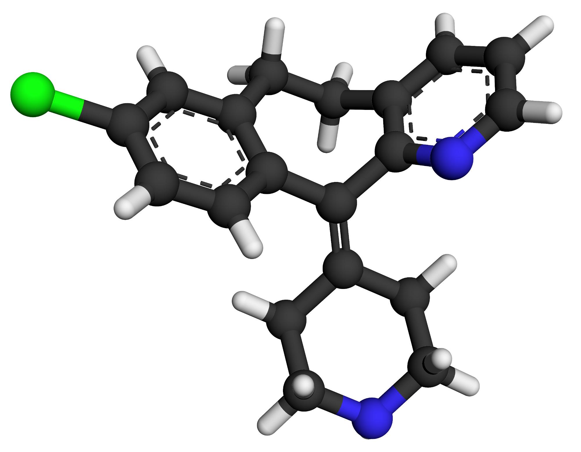 Ball-and-stick model of desloratadine. Hydrogen atoms displayed as sticks for clarity. Created using Accelrys DS Visualizer 2016 and GIMP. Optimized with OptiPNG.